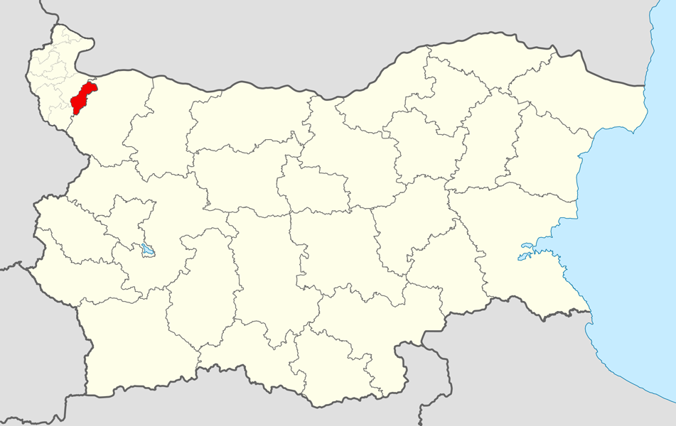 Location map of Ruzhintsi Municipality within Bulgaria and Vidin Province. Equirectangular projection, N/S stretching 130 %. Geographic limits of the map: N: 44.4° N S: 41.1° N W: 22.1° E E: 28.9° E